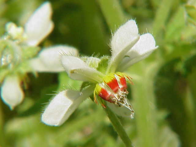 Species: Blumenbachia hieronymi Family: Loasaceae Image No. 1